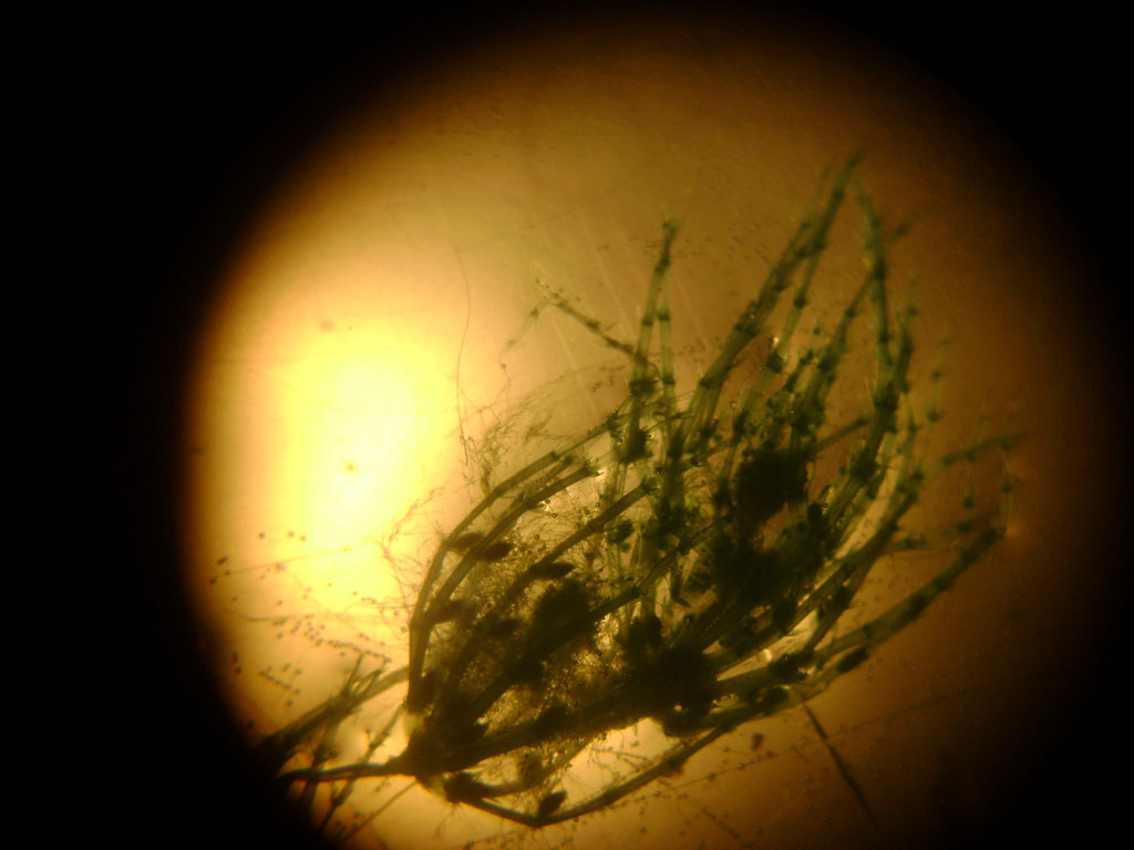 gender Charales, phylum Charophyta